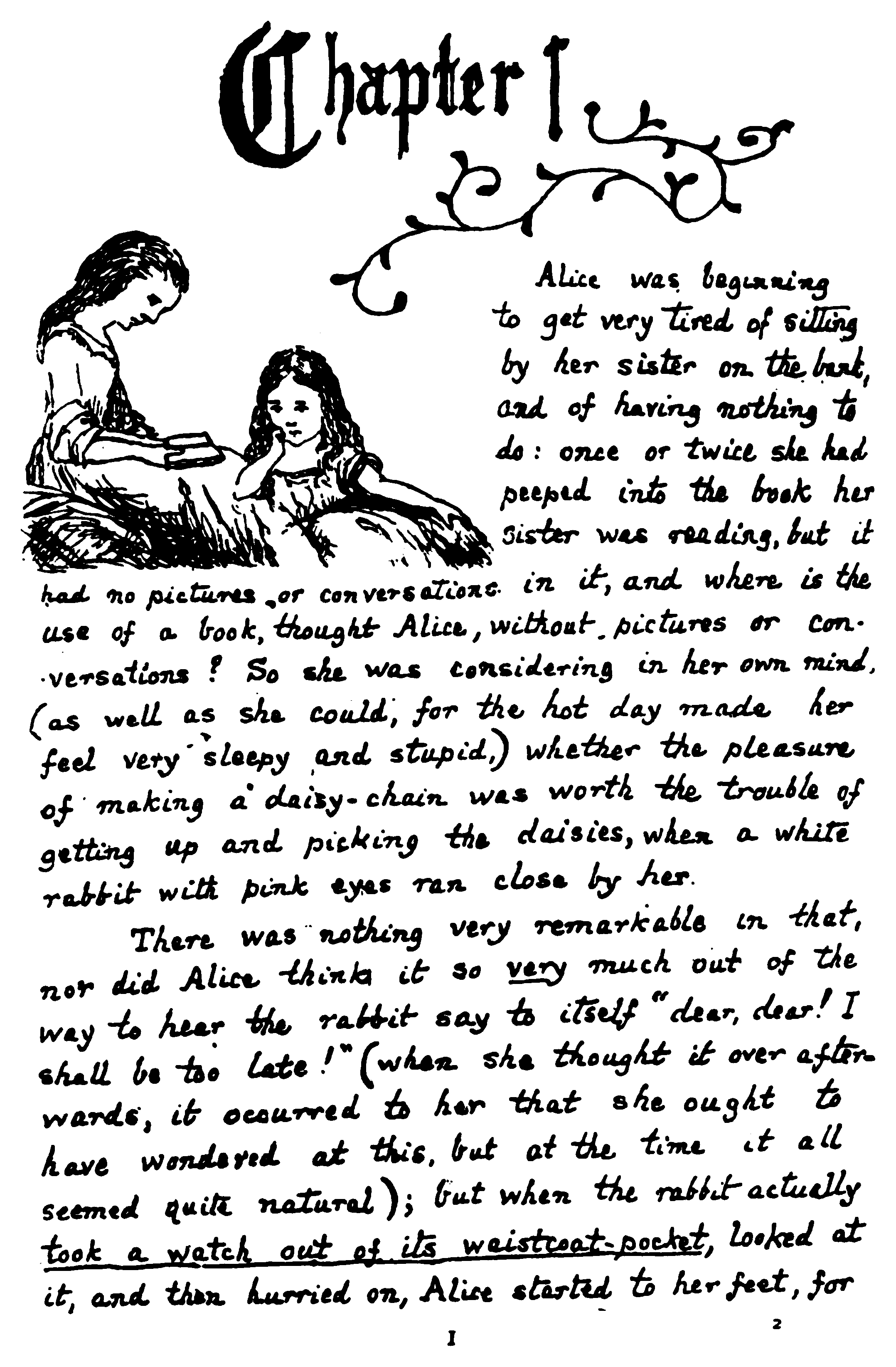 First page of handwritten illustrated manuscript "Alice's Adventures Under Ground" by Lewis Carroll